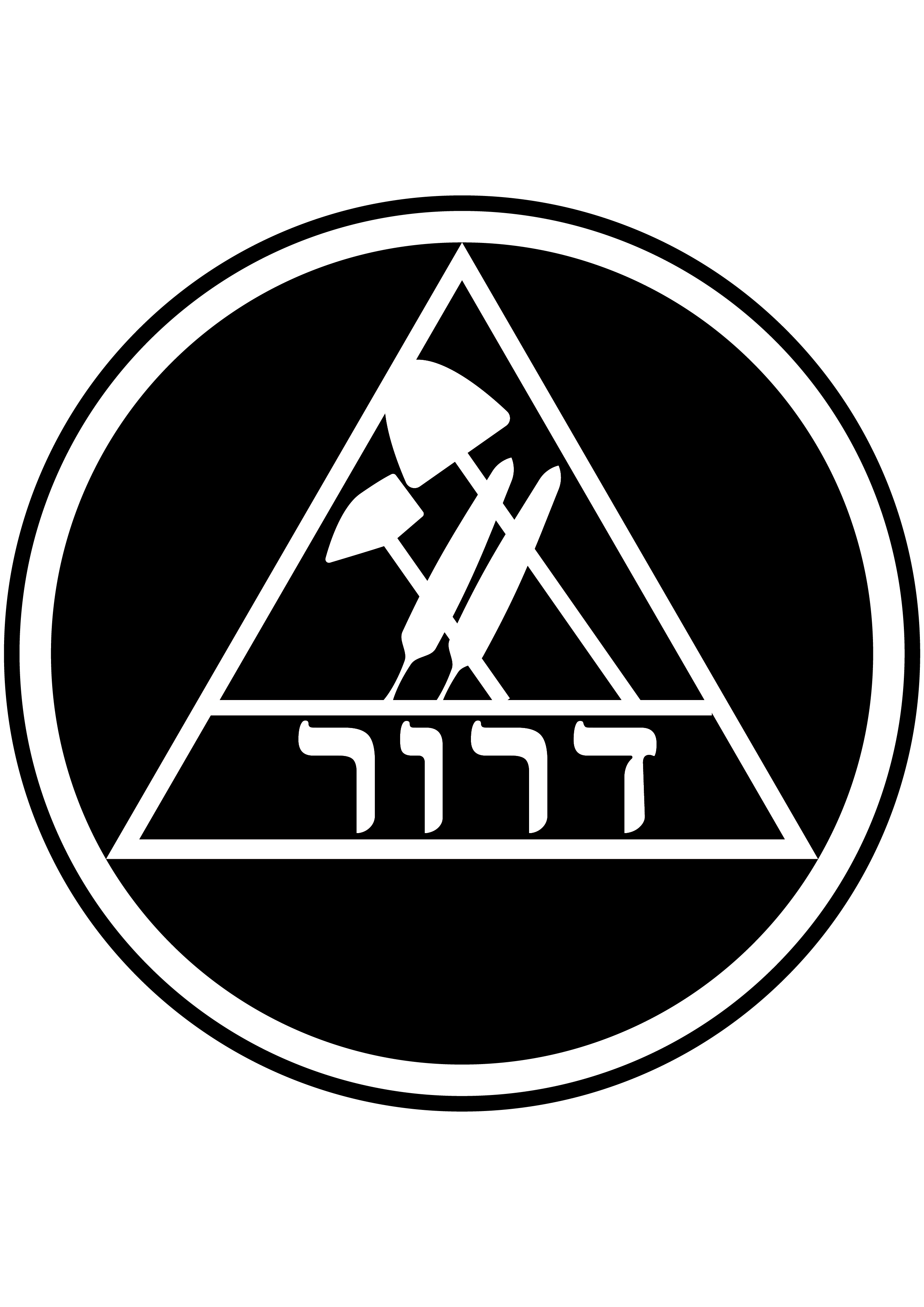 Dror Freiheit - Polish Social-Zionist Youth Movment funded in 1938